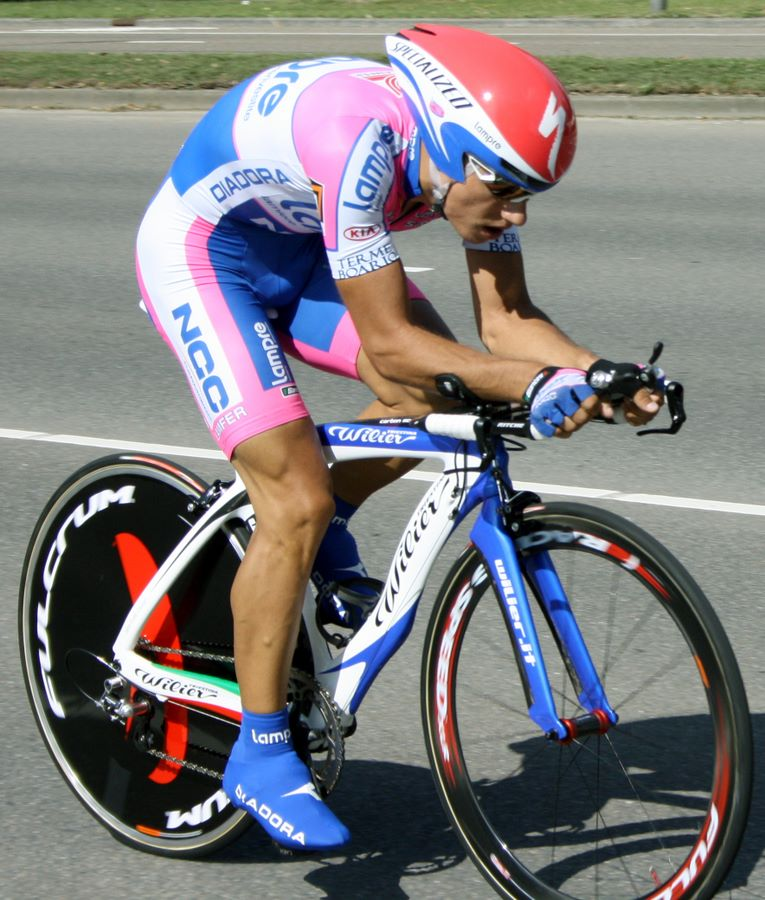 Simon Špilak at the 2009 Eneco Tour prologue